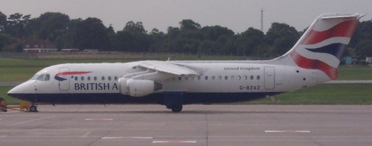 Avro RJ100 British Airways, eigenes Foto